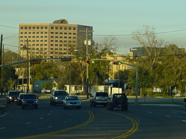 Skyline